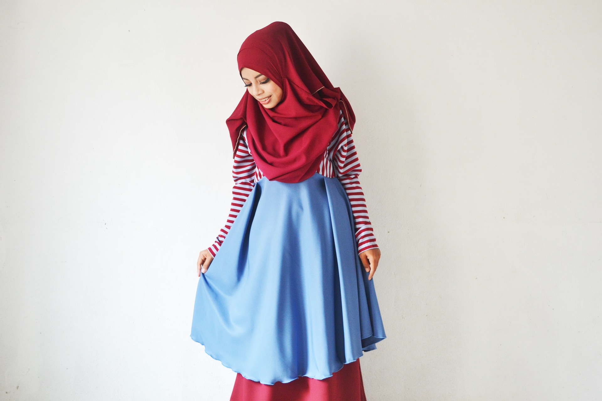 Model demonstrating Muslim dress